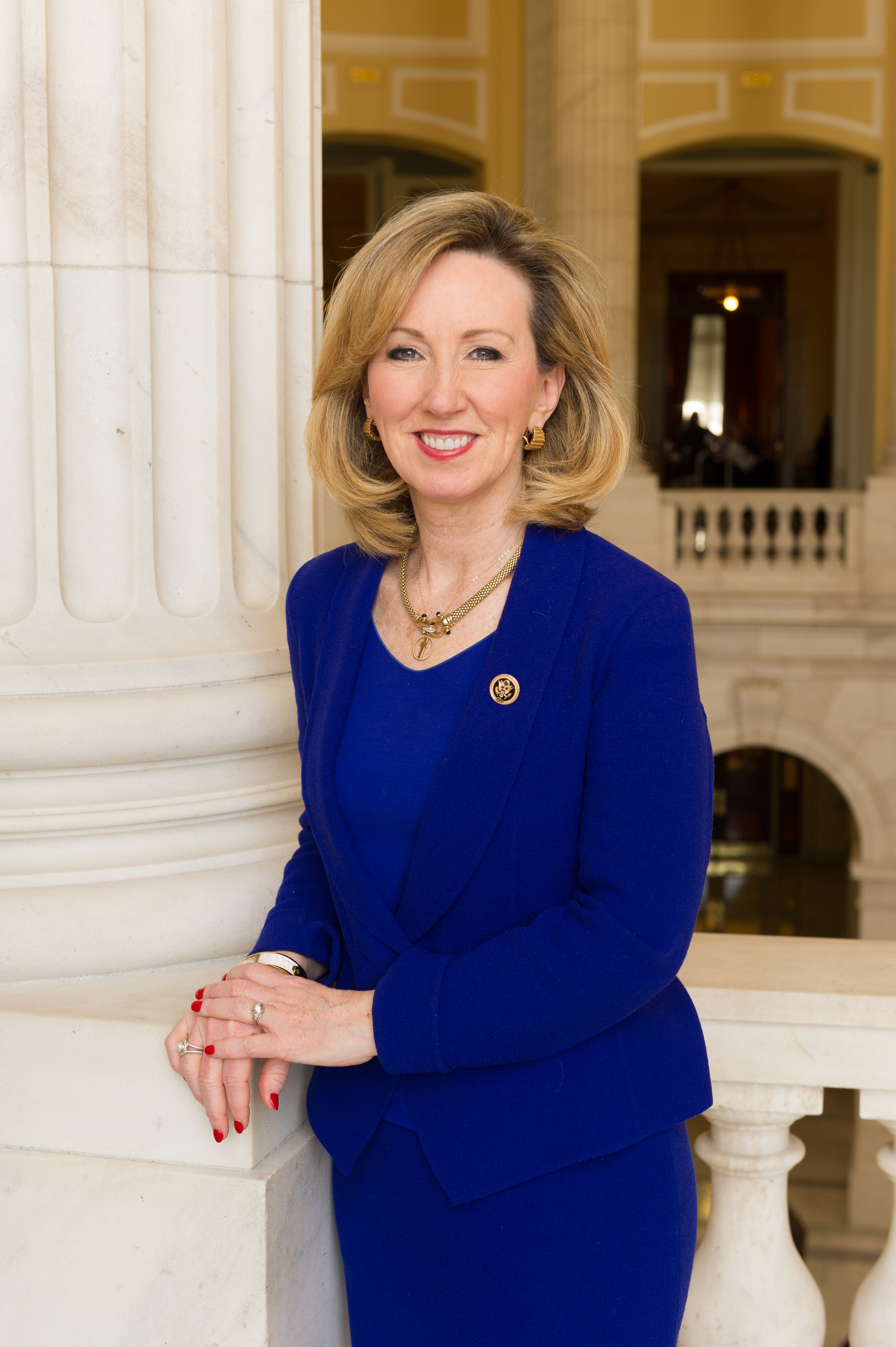 Barbara Comstock official photo